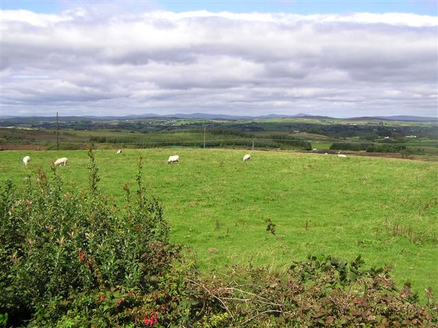 Crannogue Townland. Fuchsia bushes in full bloom along the roadside